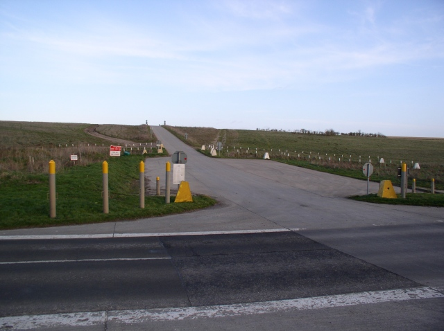 Tank crossing place, A360 One of the features of the A360 between West Lavington and Shrewton.